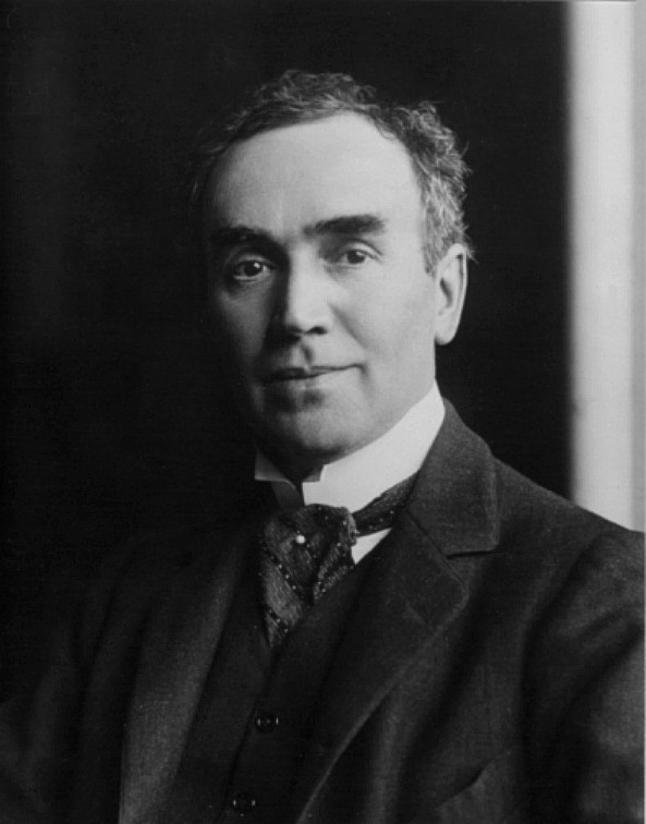 Glasgow Boys artist Edward Arthur Walton